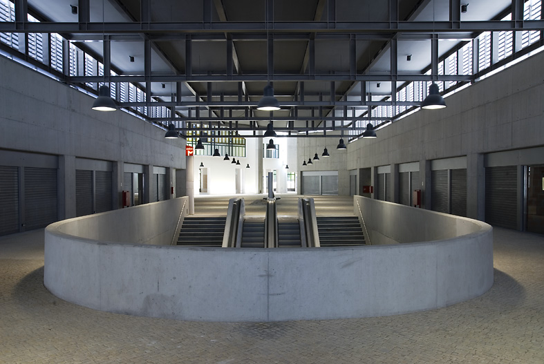 Cais do Sodré Station - Arq. Pedro Botelho and Nuno Teotónio Pereira